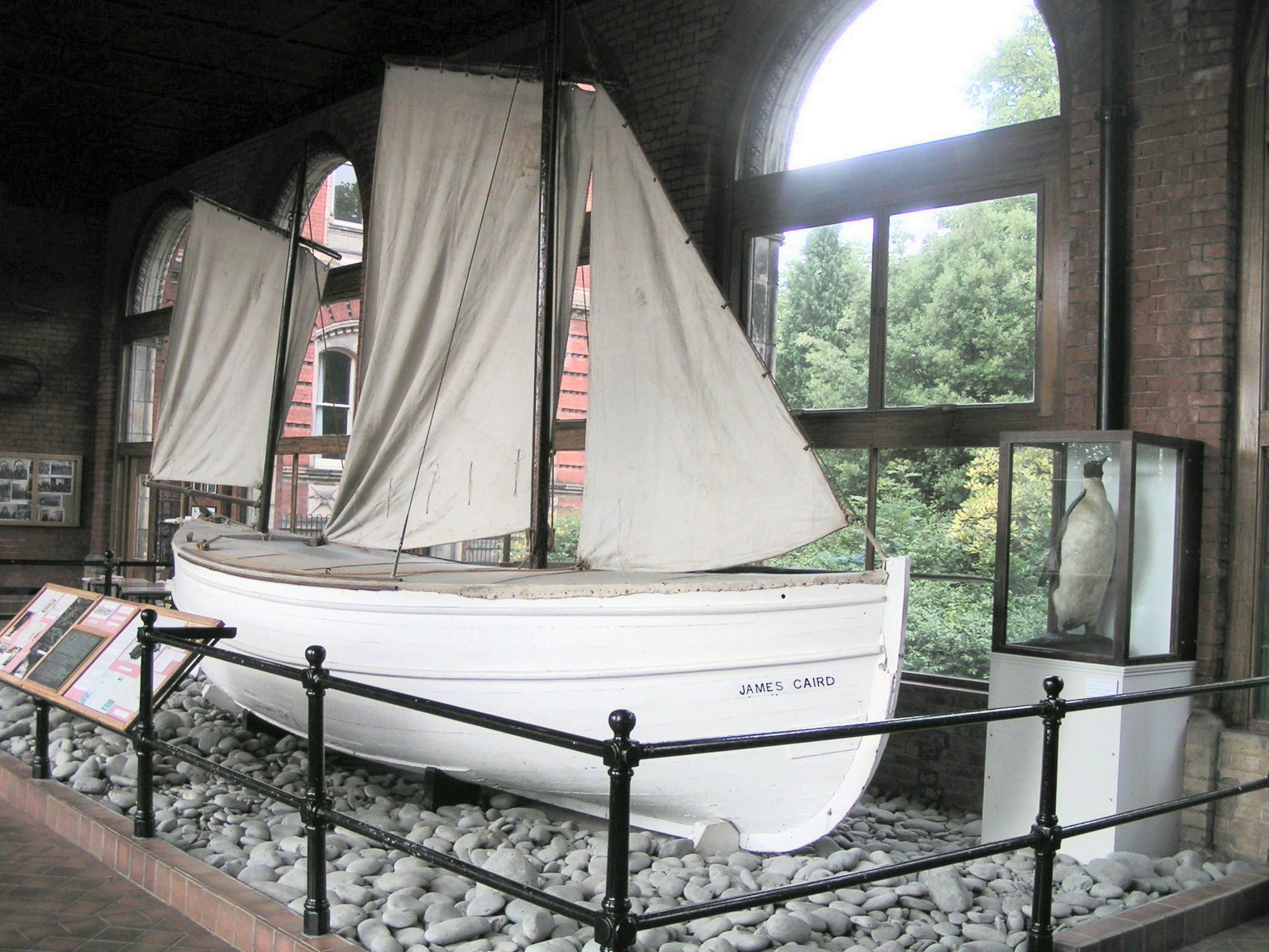 The James Caird, from Ernest Shackleton's 1916 open boat journey, now on display at Dulwich College, South London